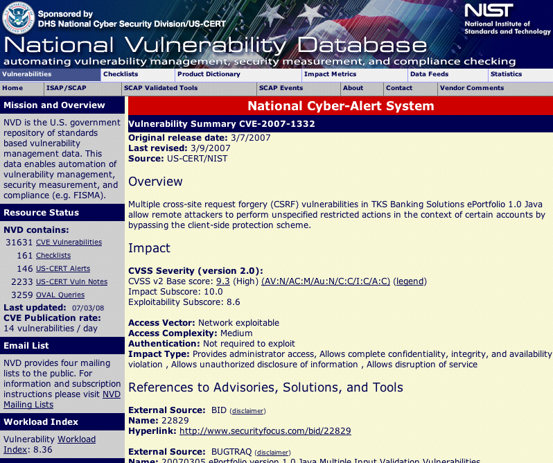 TKS Banking Solutions e-Portfolio bug in the U.S. vulnerability database